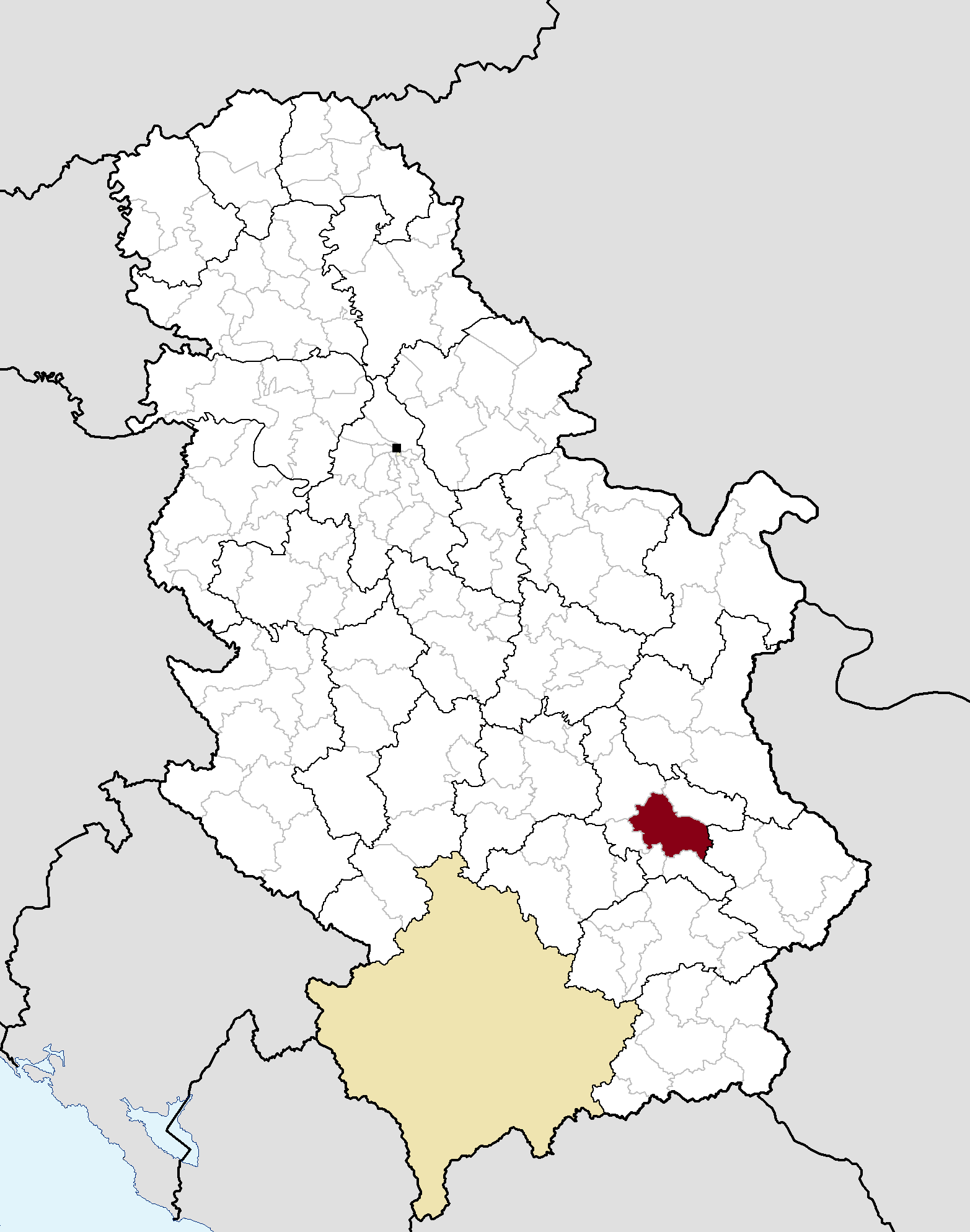 Municipal location in Serbia